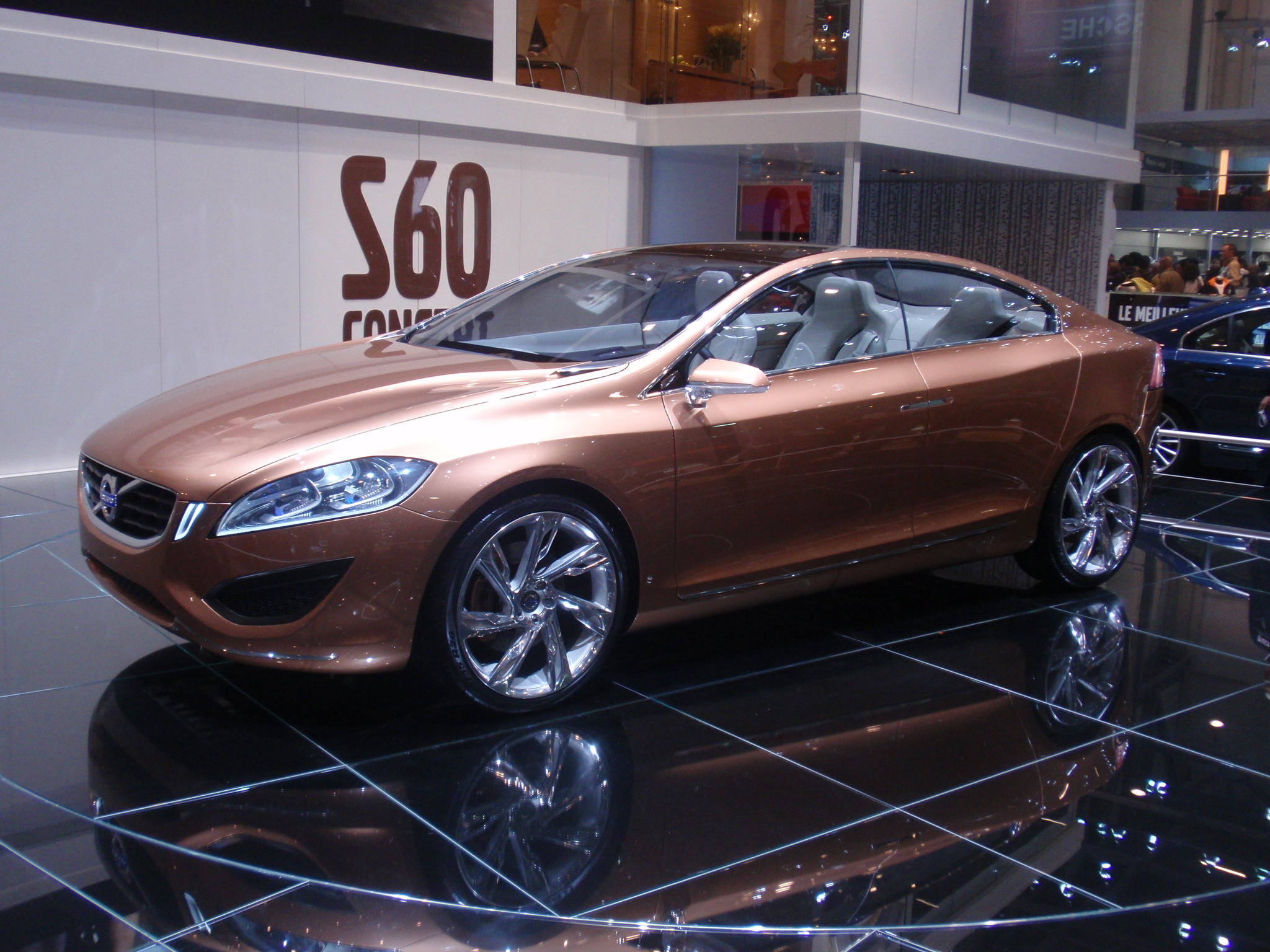 Volvo S60 Concept at the 2009 Geneva Motor Show